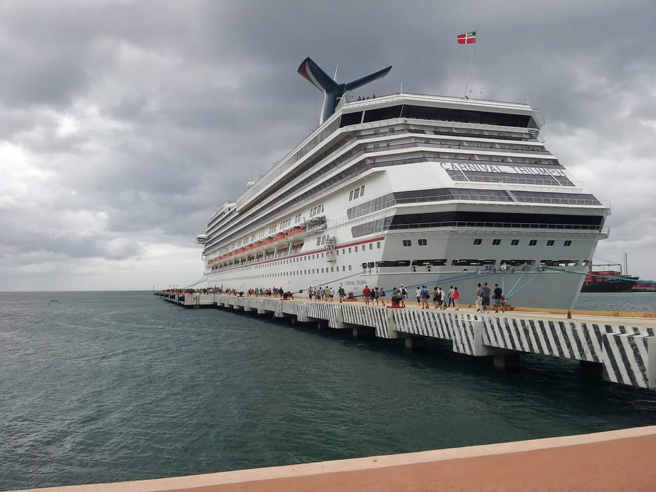 Carnival Triumph docked in Progreso Mexico